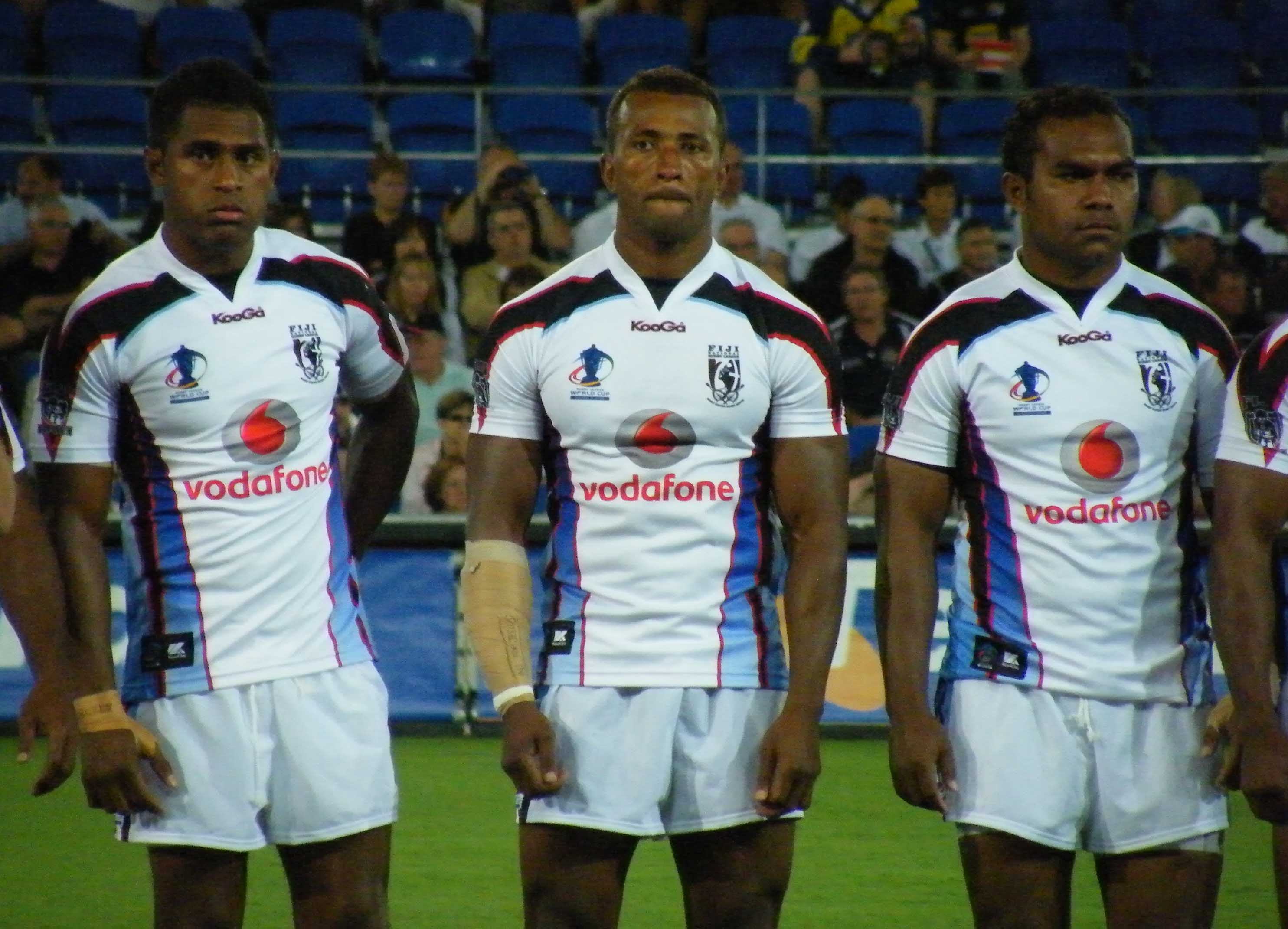 RLWC - Fiji v Ireland, Gold Coast 2008. Fijian winger Semi Tadulala.